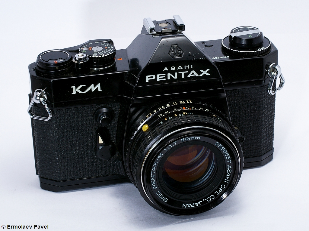 Asahi Pentax KM film SLR camera with SMC Pentax-M 1:1.7 50 mm lens